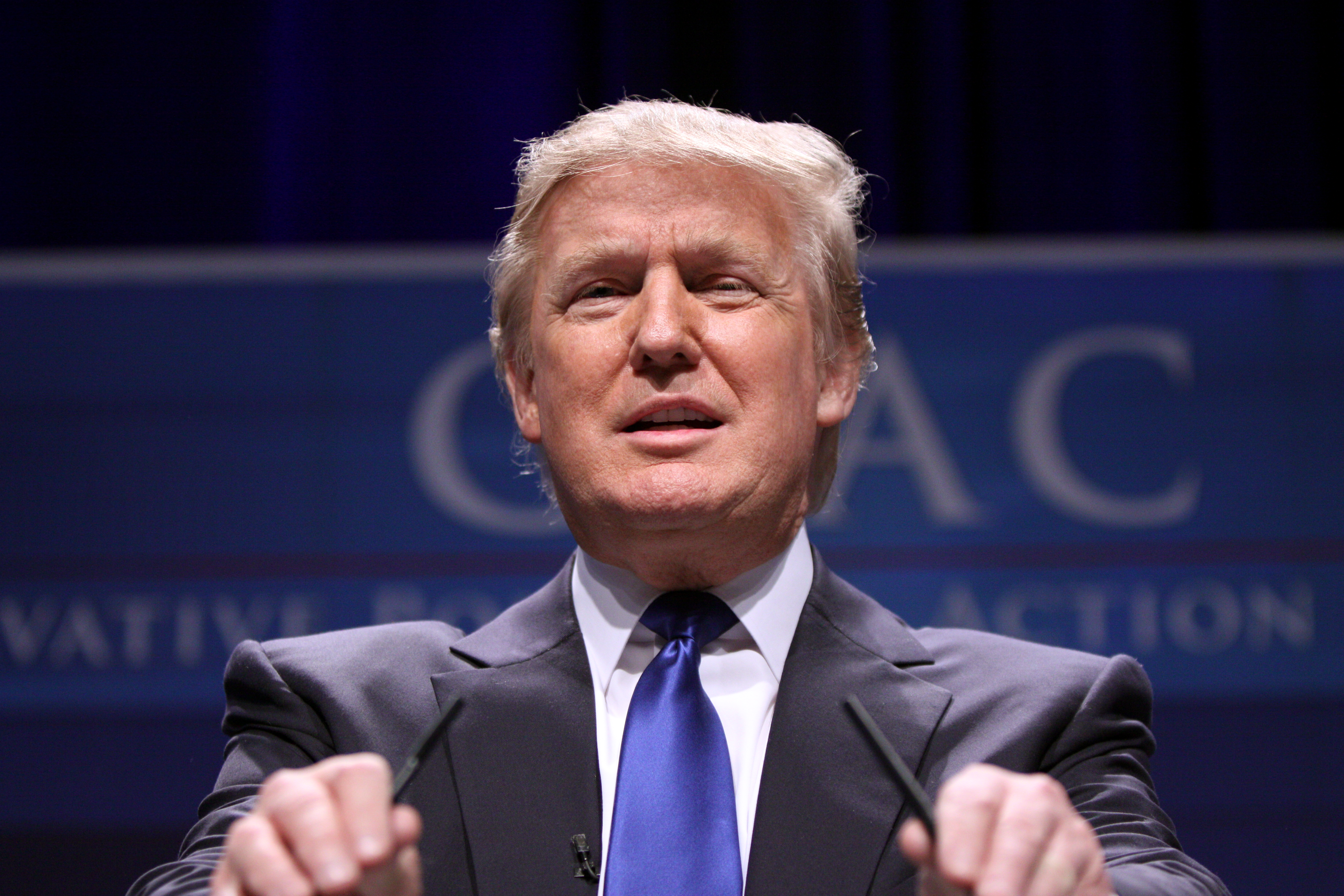 Donald Trump speaking at CPAC 2011 in Washington, D.C.